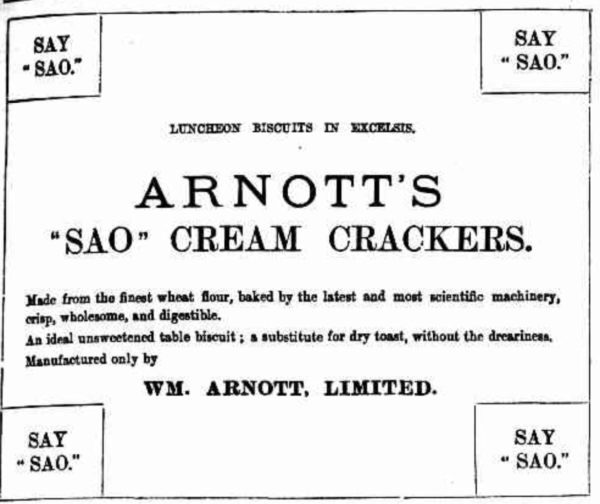 advertisement for SAO crackers, 1905